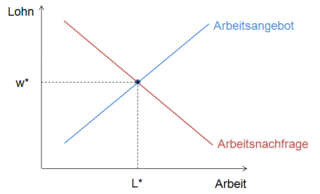 Basic neoclassical model of the labor market (German)